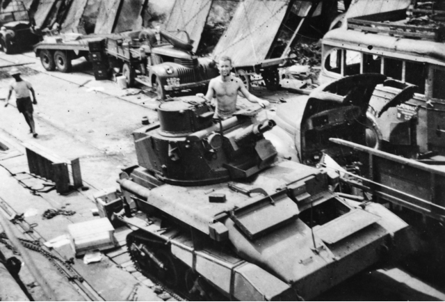 AWM Caption: Oosthaven, Sumatra, Netherlands East Indies. 1942-02. A Light tank MkV1B from a Light Tank Squadron of the 3rd Hussars, British Army, on the wharf. The unit had disembarked on 1942-02-14 at the port which faced the Sunda Strait on the southern tip of Sumatra. They were part of the force which was given the task of defending the area and covering the evacuation of the troops and civilians on 1942-02-17.